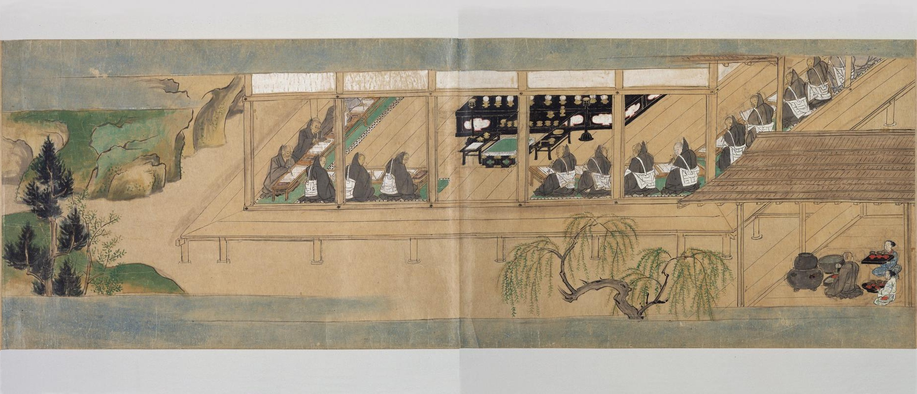 Kiyomizudera engi emaki - Scroll1 Pic10